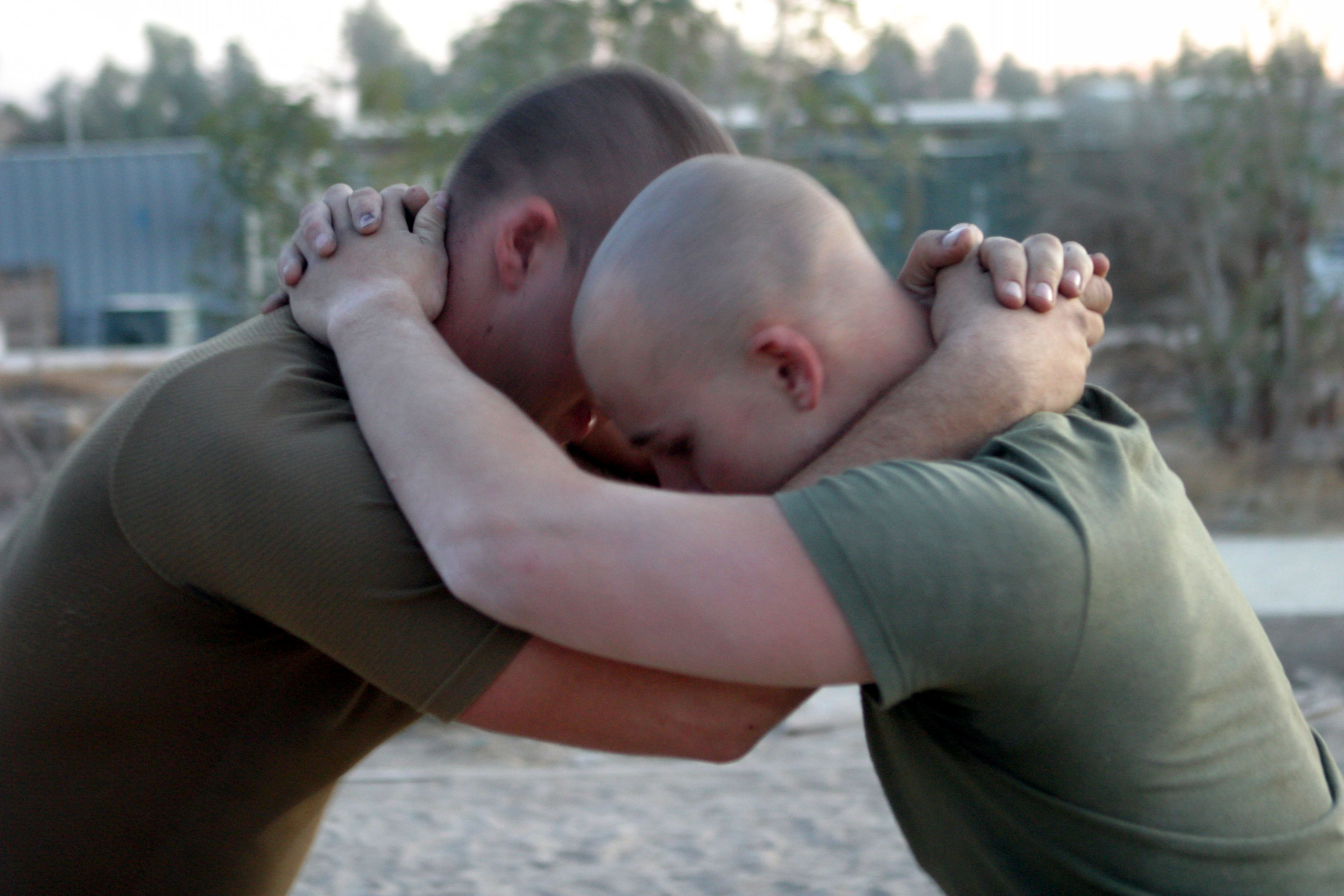 The fighter on the left has the double collar tie (Muay Thai clinch).